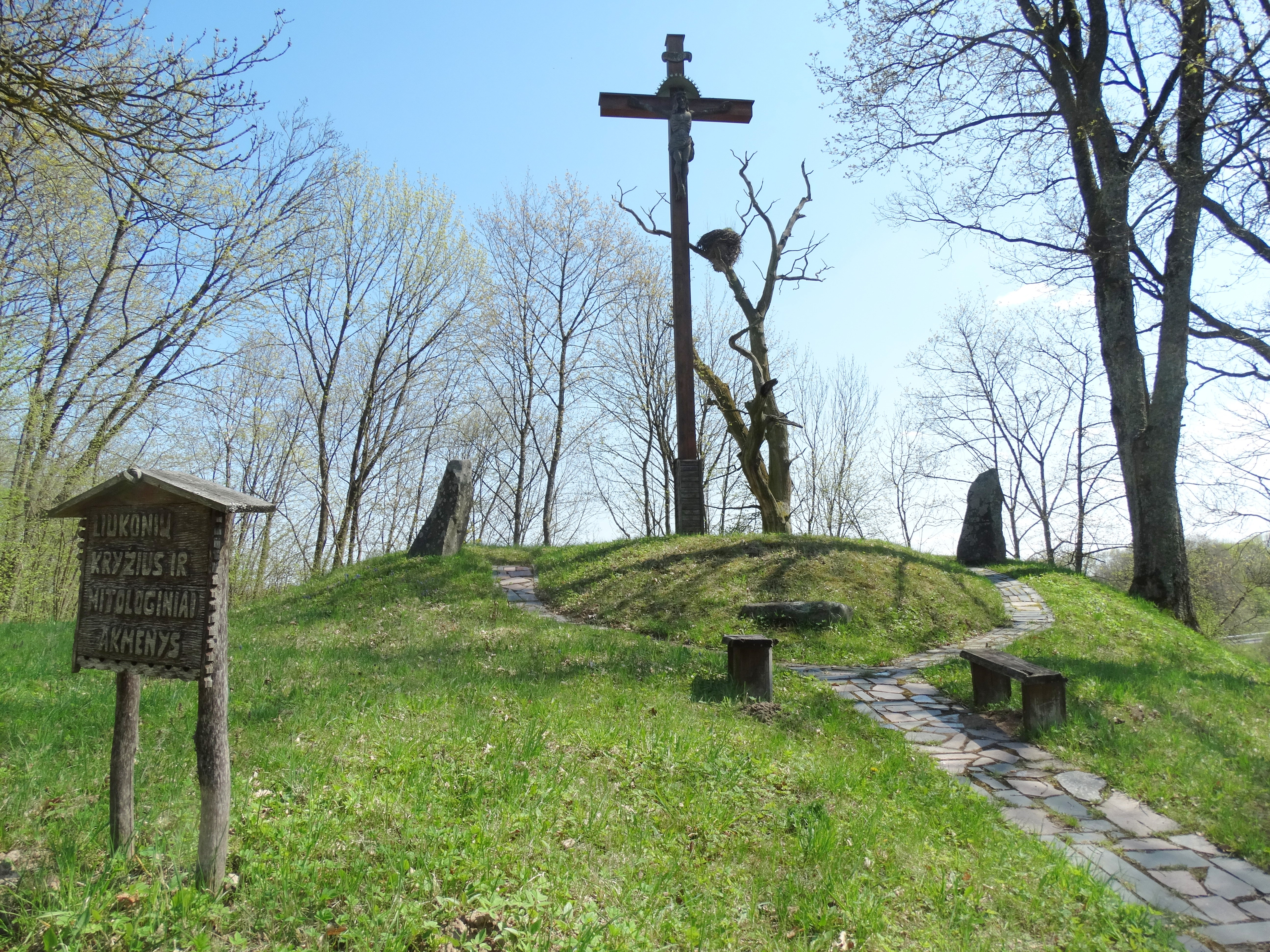 Liukonys, Širvintos District, Lithuania